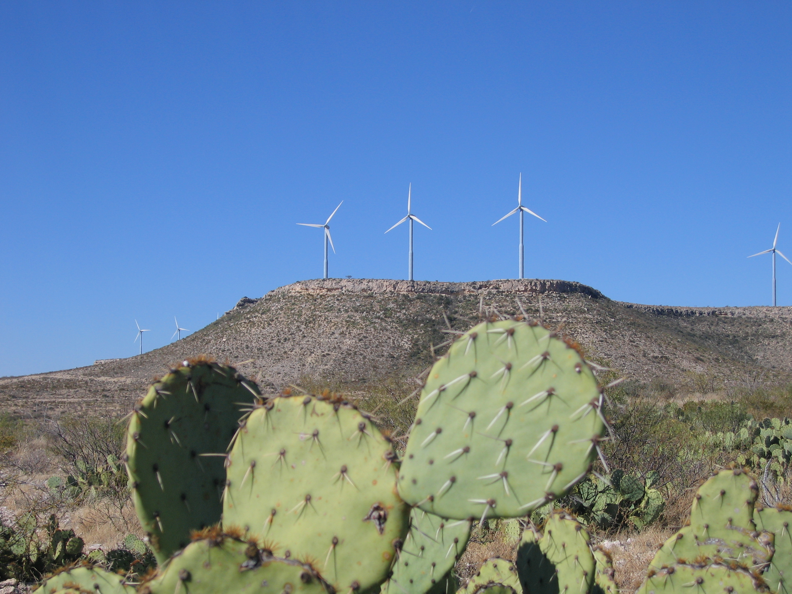 This is part of the Desert Sky Wind Farm in West Texas. (Author: Edward Jackson